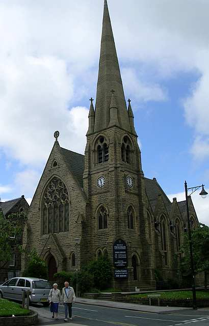 Christchurch - The Grove This is a joint Methodist and URC.